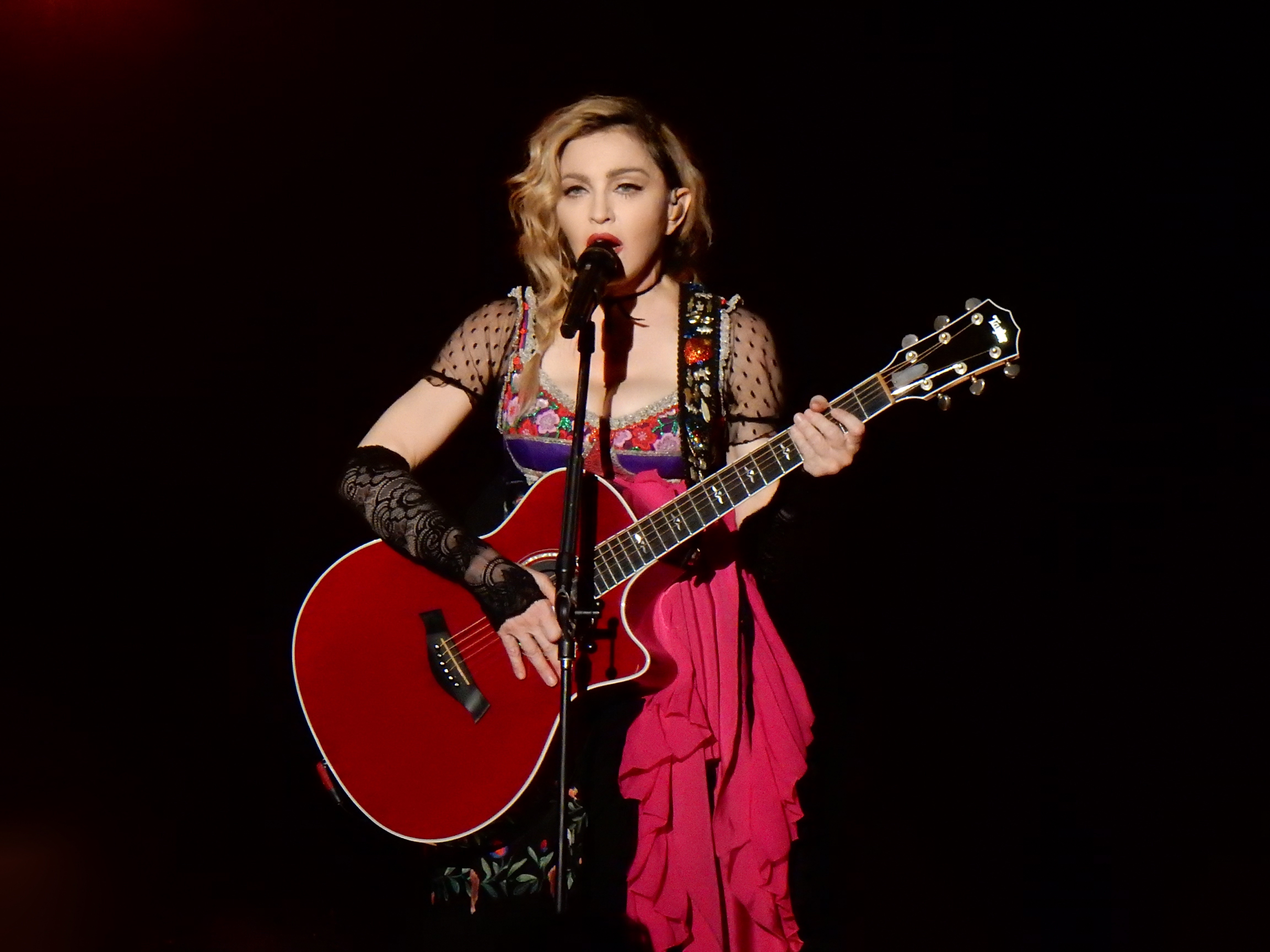 Madonna - Rebel Heart Tour 2015 - Paris 2